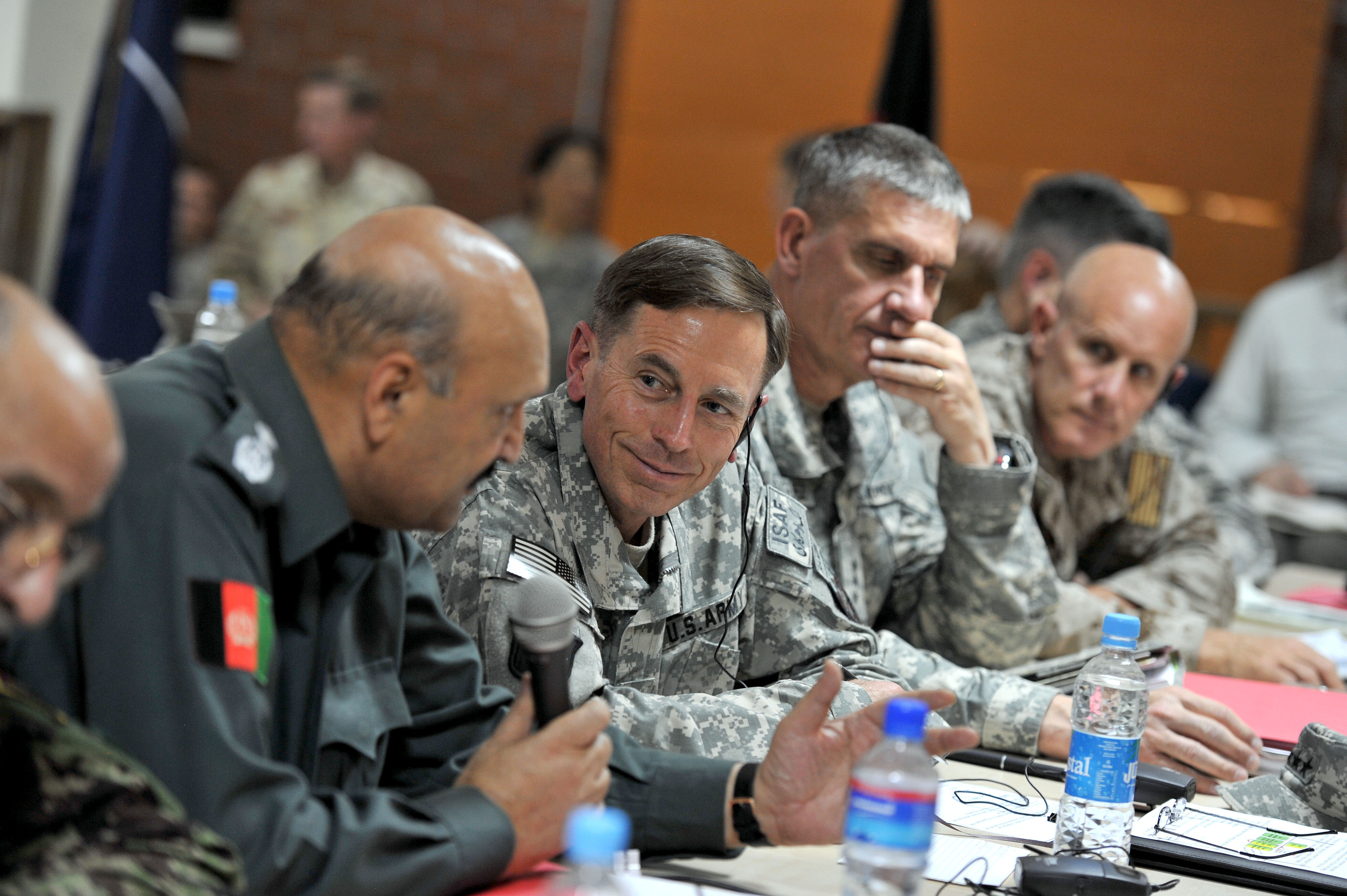 Commander of the International Security Assistance Force Gen. David H. Petraeus (3rd from left), U.S. Army, speaks with Afghan Minister of Security Gen. Munir Mangal during the Commander's Conference in Kabul, Afghanistan, on July 7, 2010. Commander of ISAF Joint Command and the Deputy Commander of U.S. Forces - Afghanistan Lt. Gen. David Rodriguez (2nd from right), U.S Army, and Commander of Joint Task Force 435 Vice Adm. Robert Harward (left) were also in attendance.